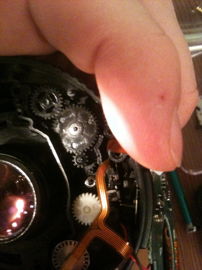 Detail of the AF sub-mechanism. Took this shot so I'd be able to put the little gears back in place. [see the set's info for the whole story]